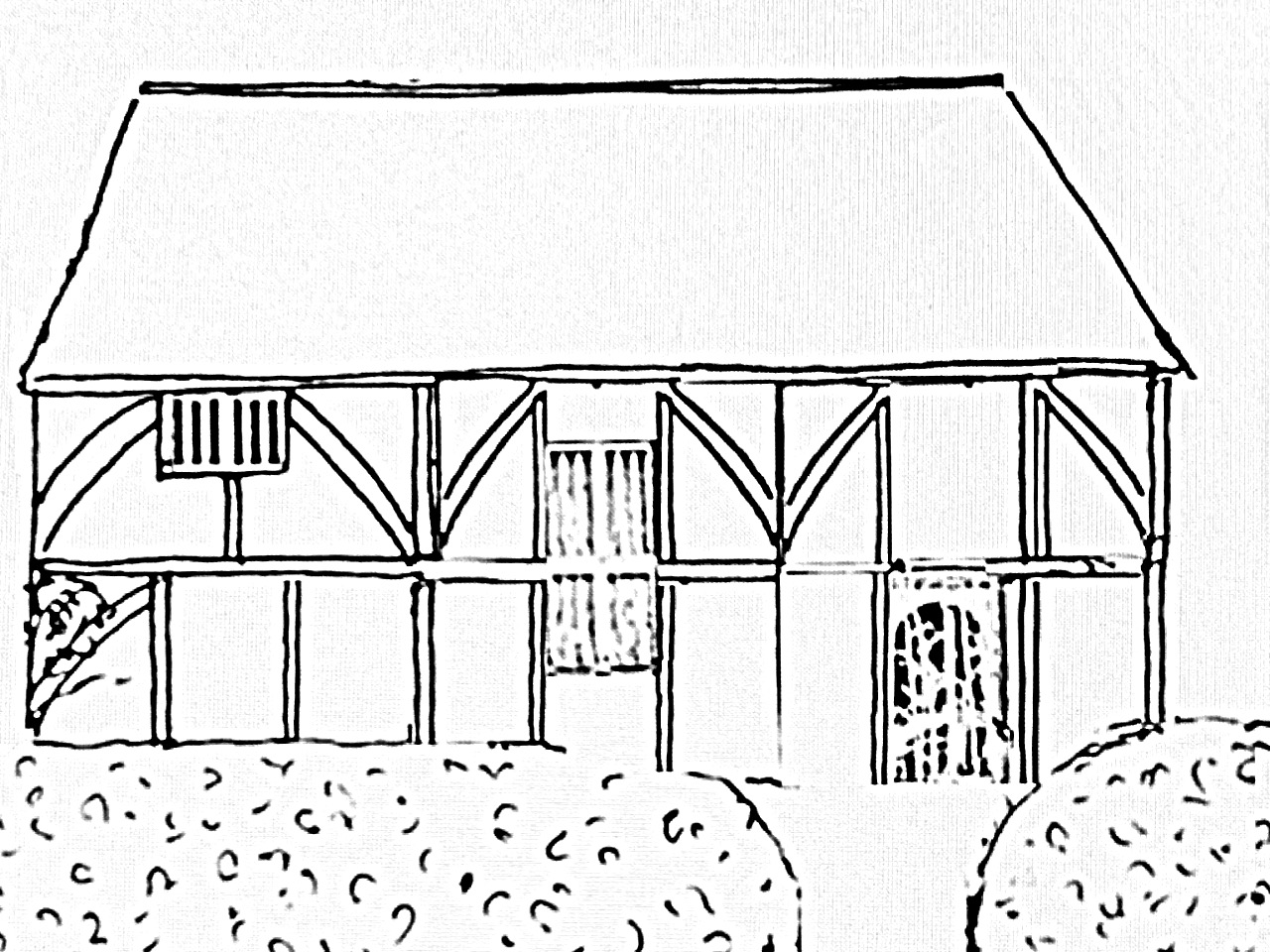 An impression of how the Cottage may have looked when first built in 1490